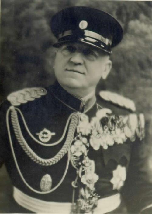 General Đorđe S. Glišić